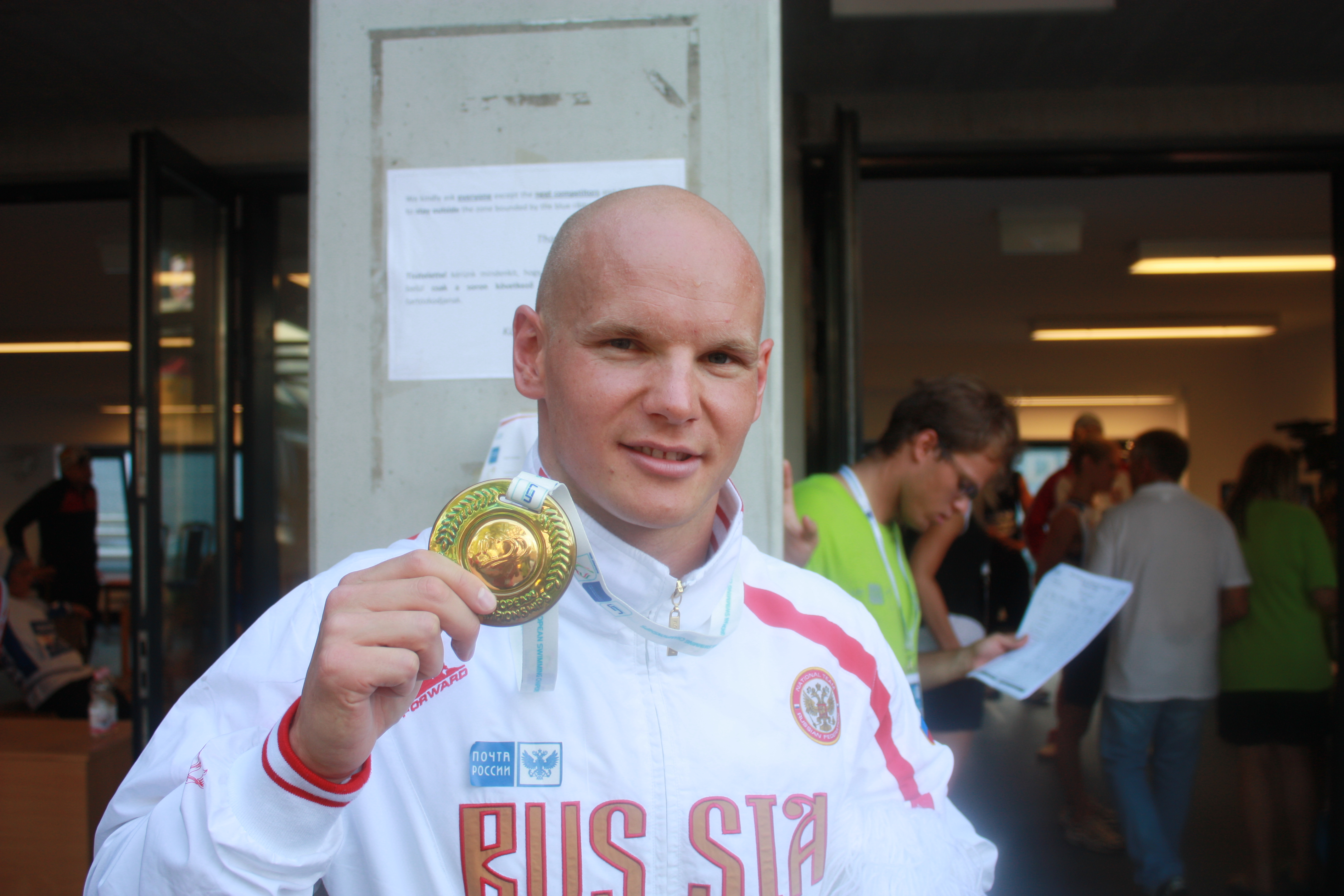 Evgeniy Korotyshkin at the European Swimming Champioships in Budapest-2010